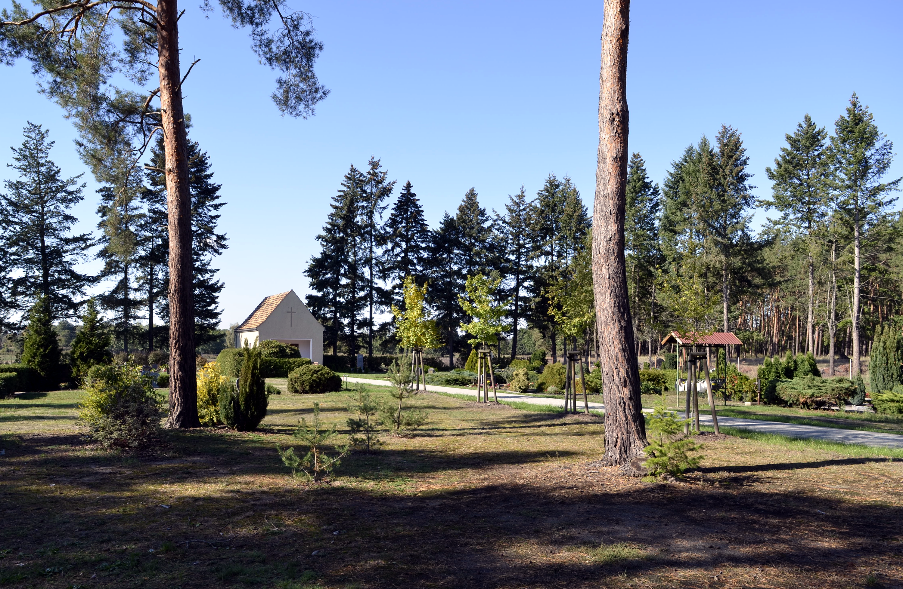 The cemetery of Klein Gaglow, which is located some distance away from the village.